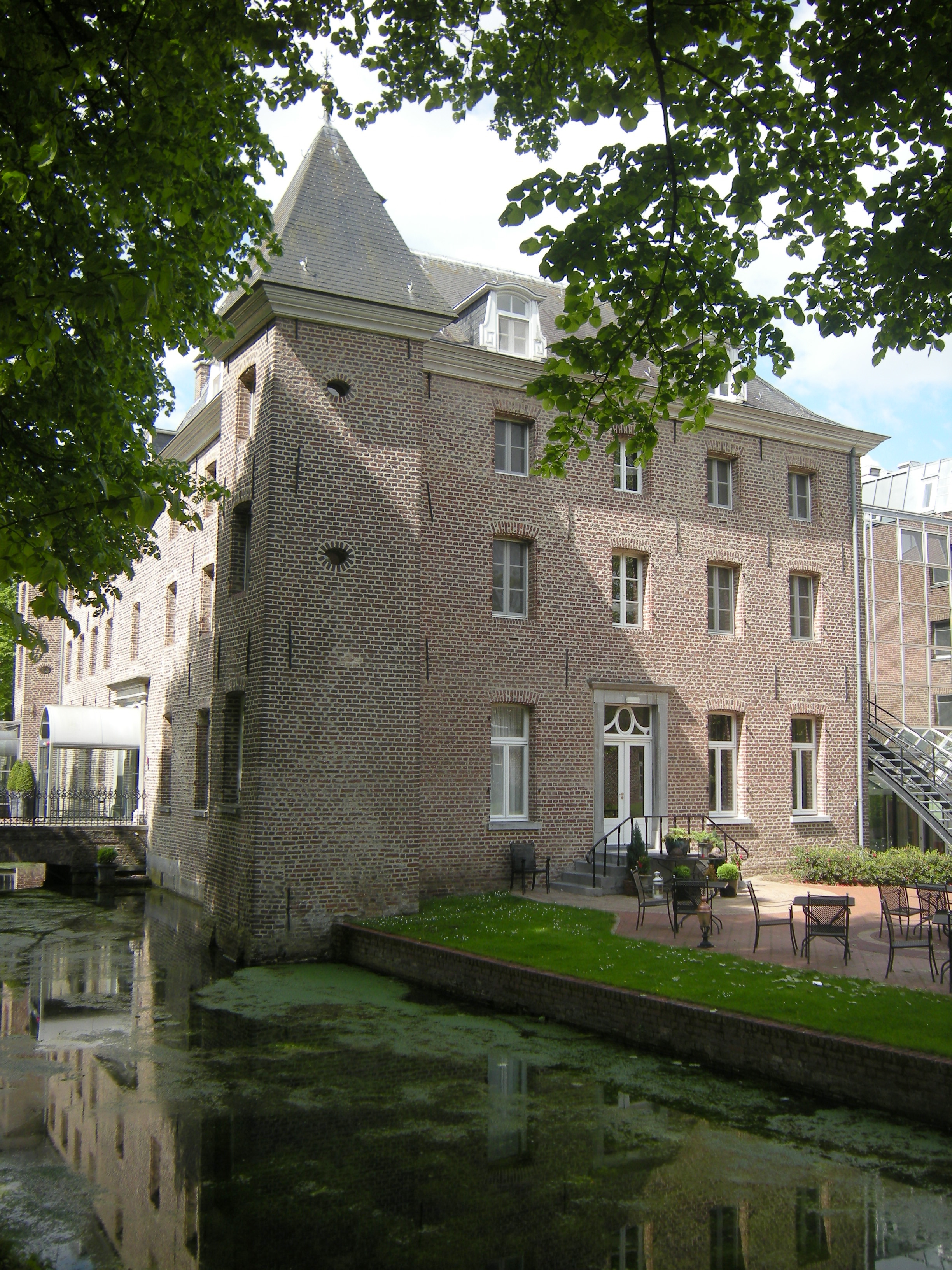 Chateau Holtmuhle Tegelen